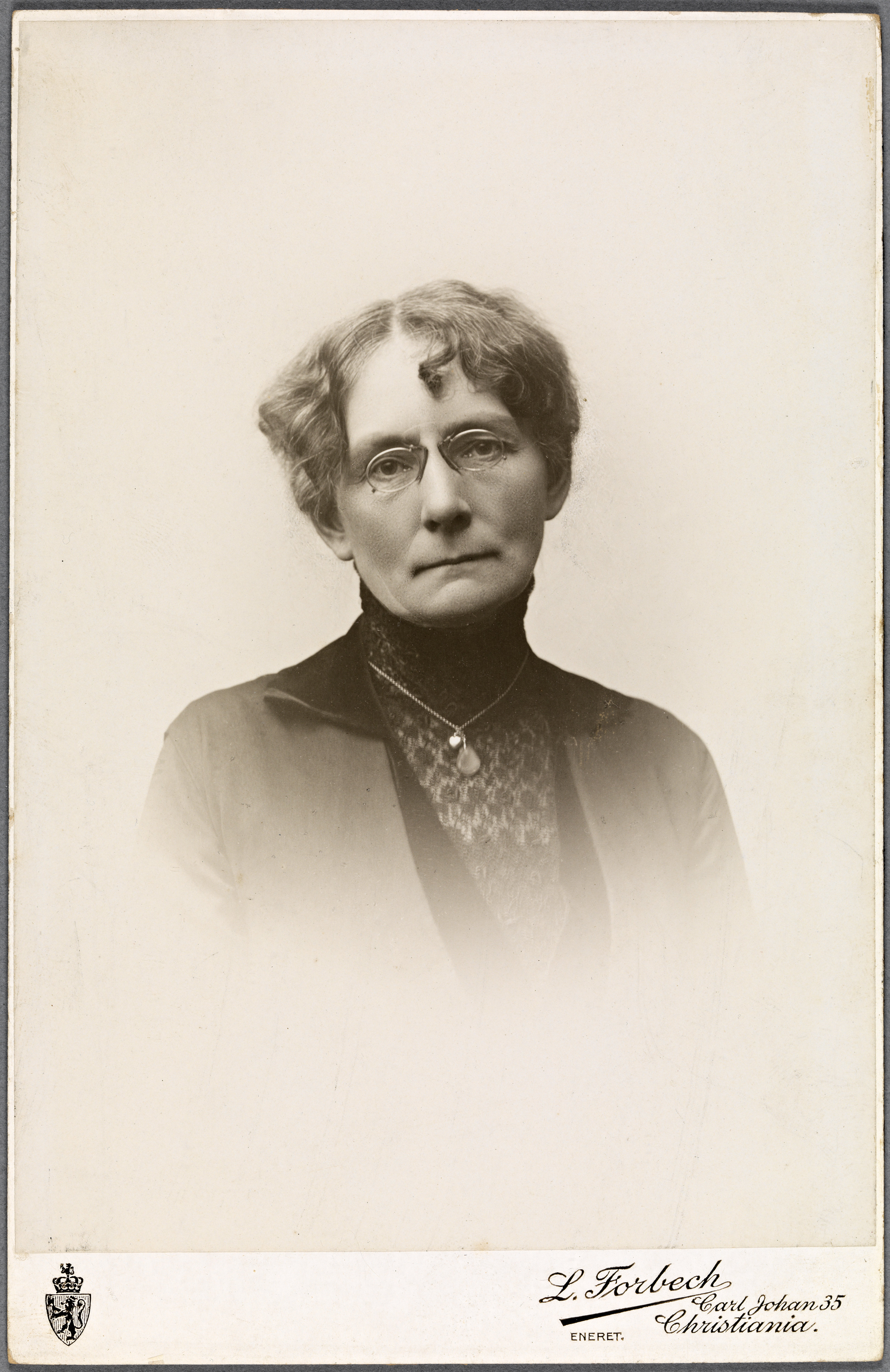 Tittel / Title: Portrett av Fernanda Nissen (1862-1920) Motiv / Motif: Kabinettkort. Dato / Date: ukjent / unknown Fotograf / Photographer: L. Forbech (Christiania) Sted / Place: Oslo Eier / Owner Institution: Nasjonalbiblioteket / National Library of Norway Lenke / Link: Bildesignatur / Image Number: blds_02913